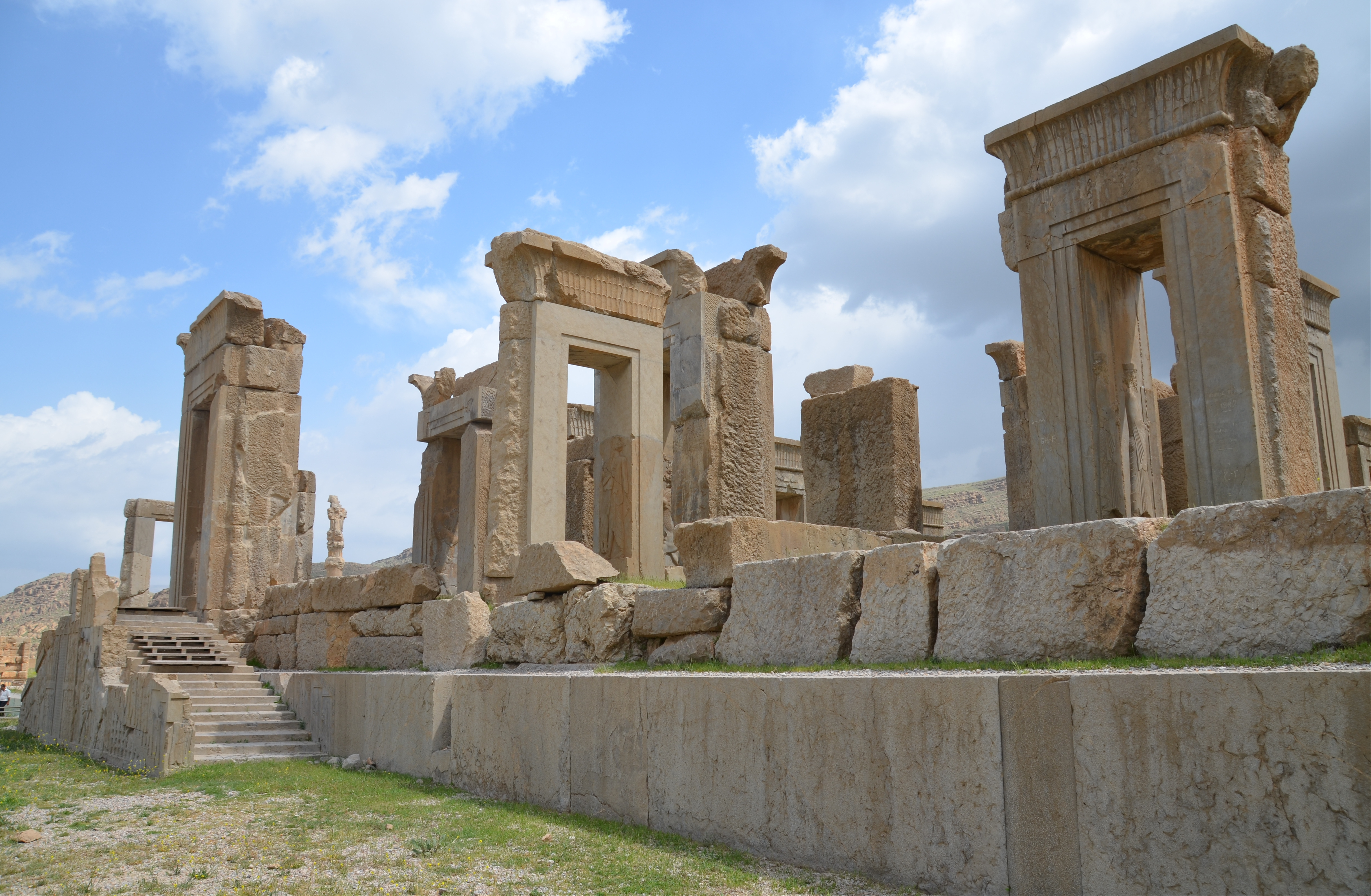 Ruins of the Tachara (Palace of Darius) in Persepolis, Persia (Persis/Fars), southwestern Iran.